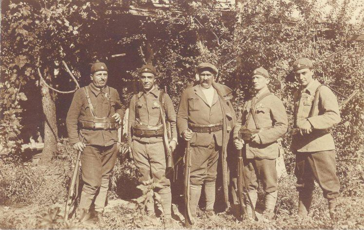 IMRO cheta, from left to right: Yonko Vaptsarov (father of Nikola Vaptsarov), Ivan Mihailov (leader of IMRO) and Stoyan Filipov